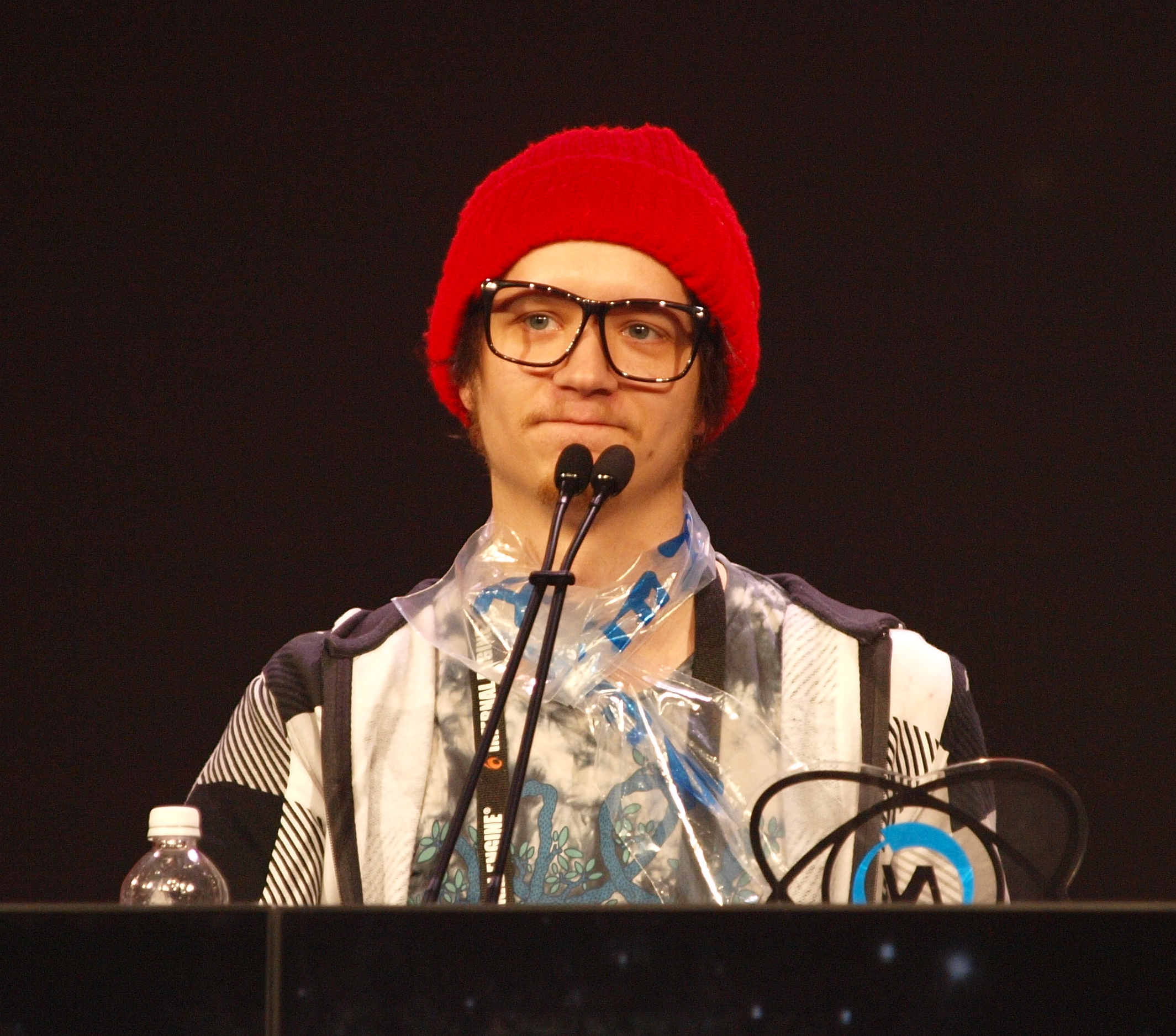 Jonatan Söderström (aka Cactus), at the Game Developers Conference in 2010, , during the Independent Games Festival Awards.